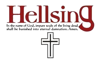 Logo of Hellsing anime series.